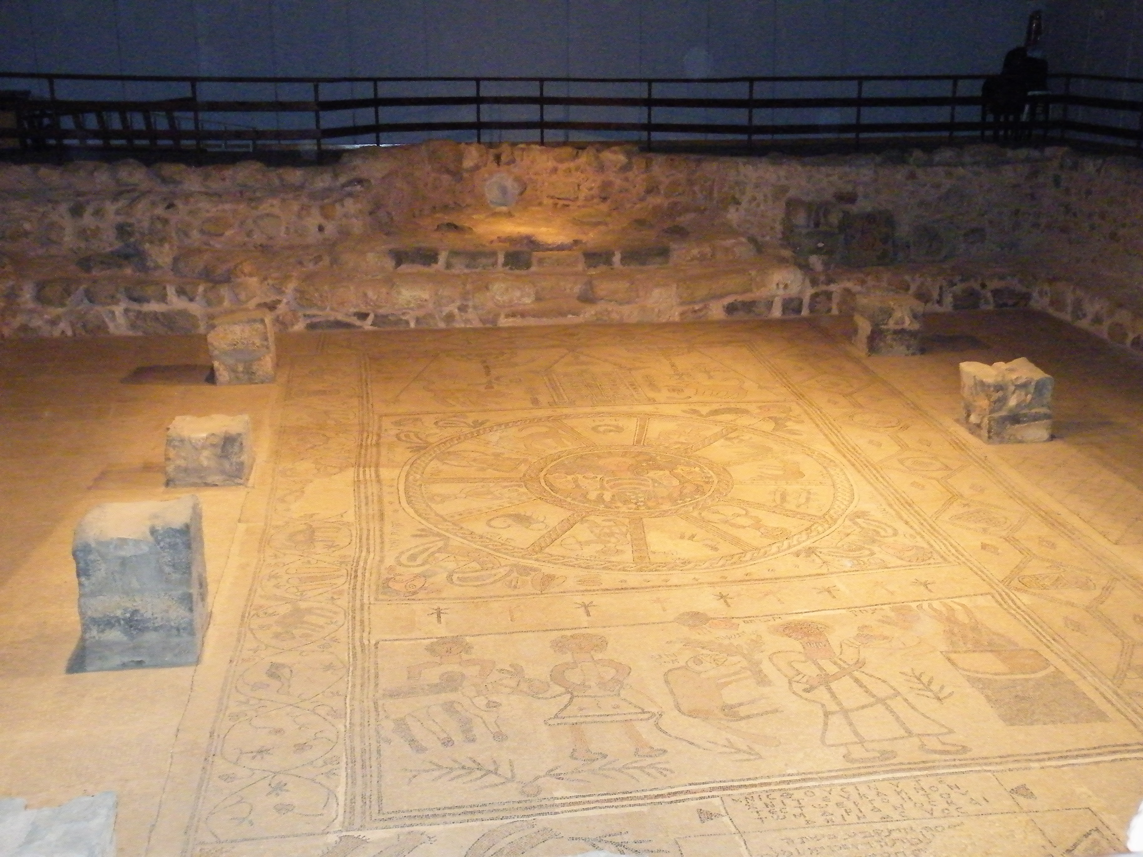 The mosaic floor of the ancient synagogue, which is clearly a shoddy piece of artwork. Archeologists have determined that this was the norm for less affluent synagogues, to hire a second-rate artist in order to have the decorative floor.